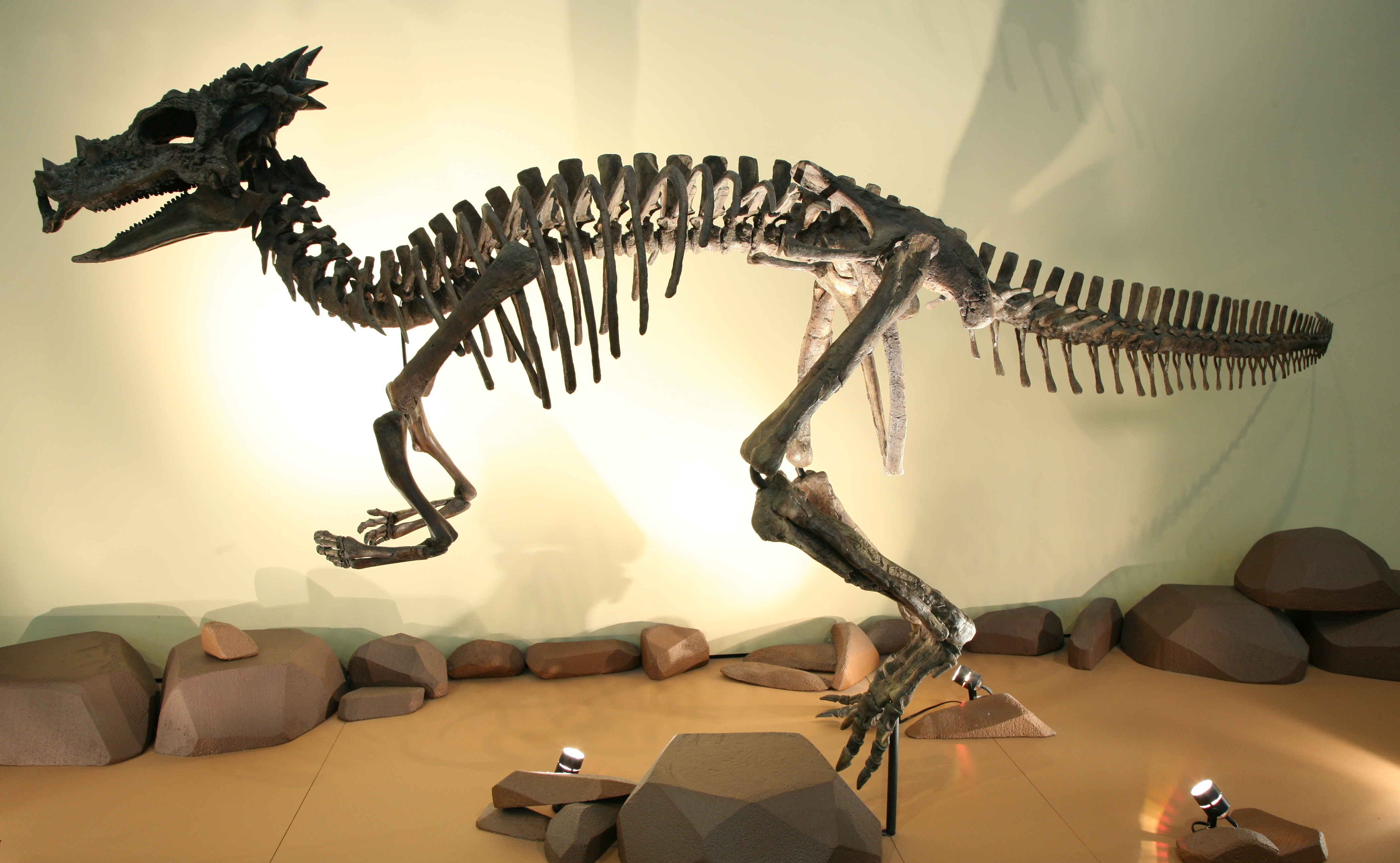 Dracorex skeleton restoration, The Children's Museum of Indianapolis.